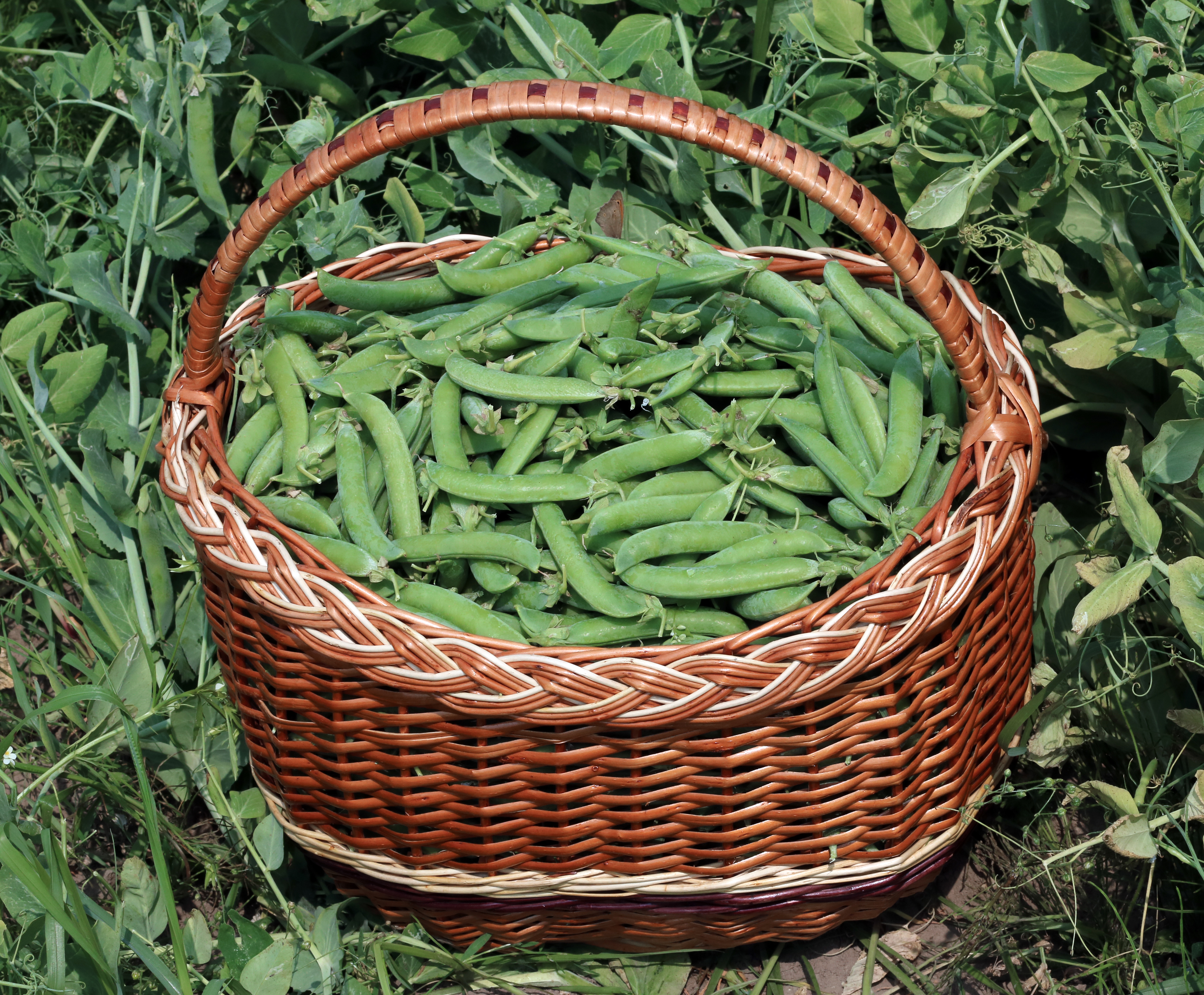 A basket of peas in pods. Ukraine, Vinnytsia district, Vinnytsia region.